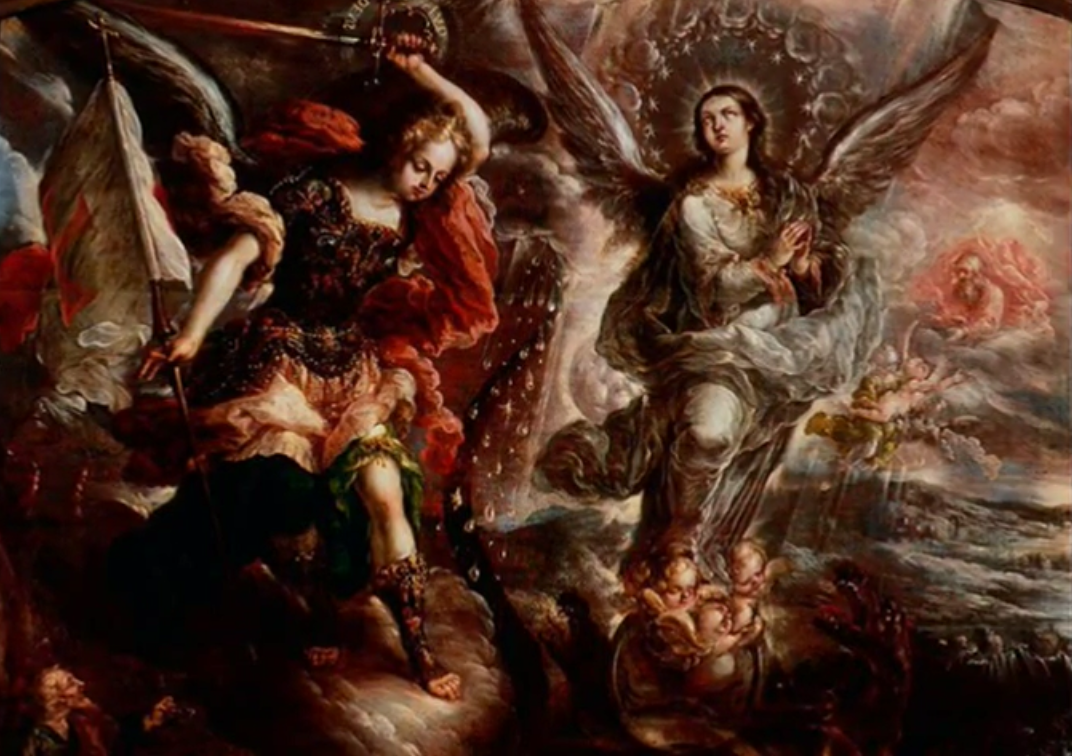 La Virgen del Apocalipsis (The Virgin of the Apocalypse) by Cristóbal de Villalpando. Currently in Bello y González Museum, Puebla city, Mexico.